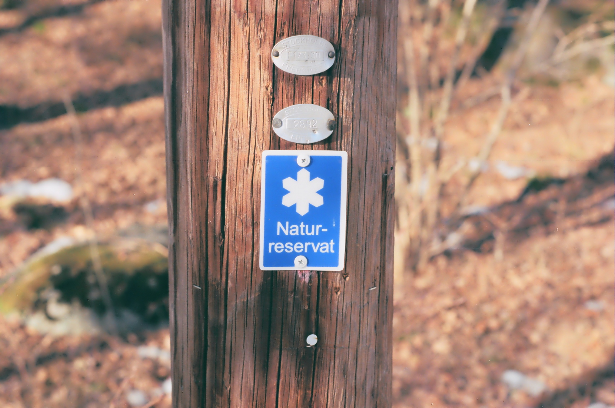 Skylt i Nackareservatet som markerar gränsen för naturreservatet.